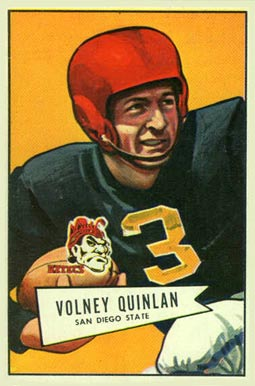 American football player Skeets Quinlan on a 1952 Bowman Large card.